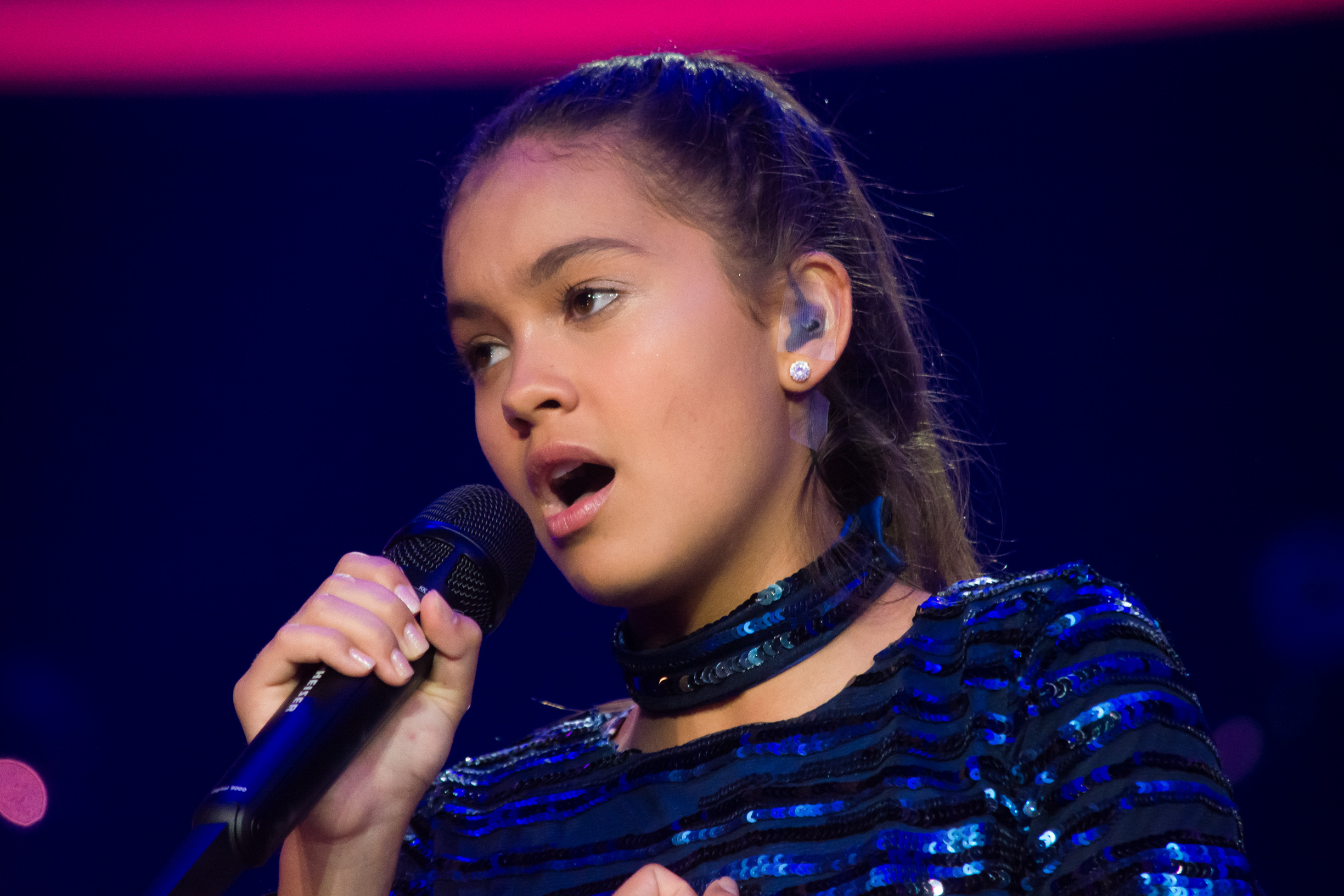 JESC 2016 participant: Alexa Curtis (Australia)